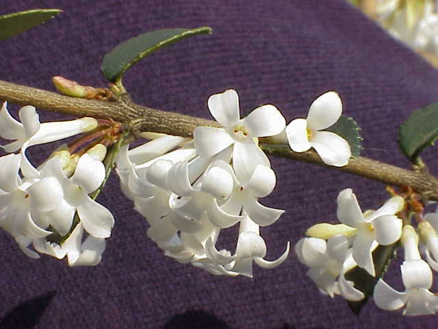 Species: Osmanthus delavayi Family: Oleaceae Image No. 1